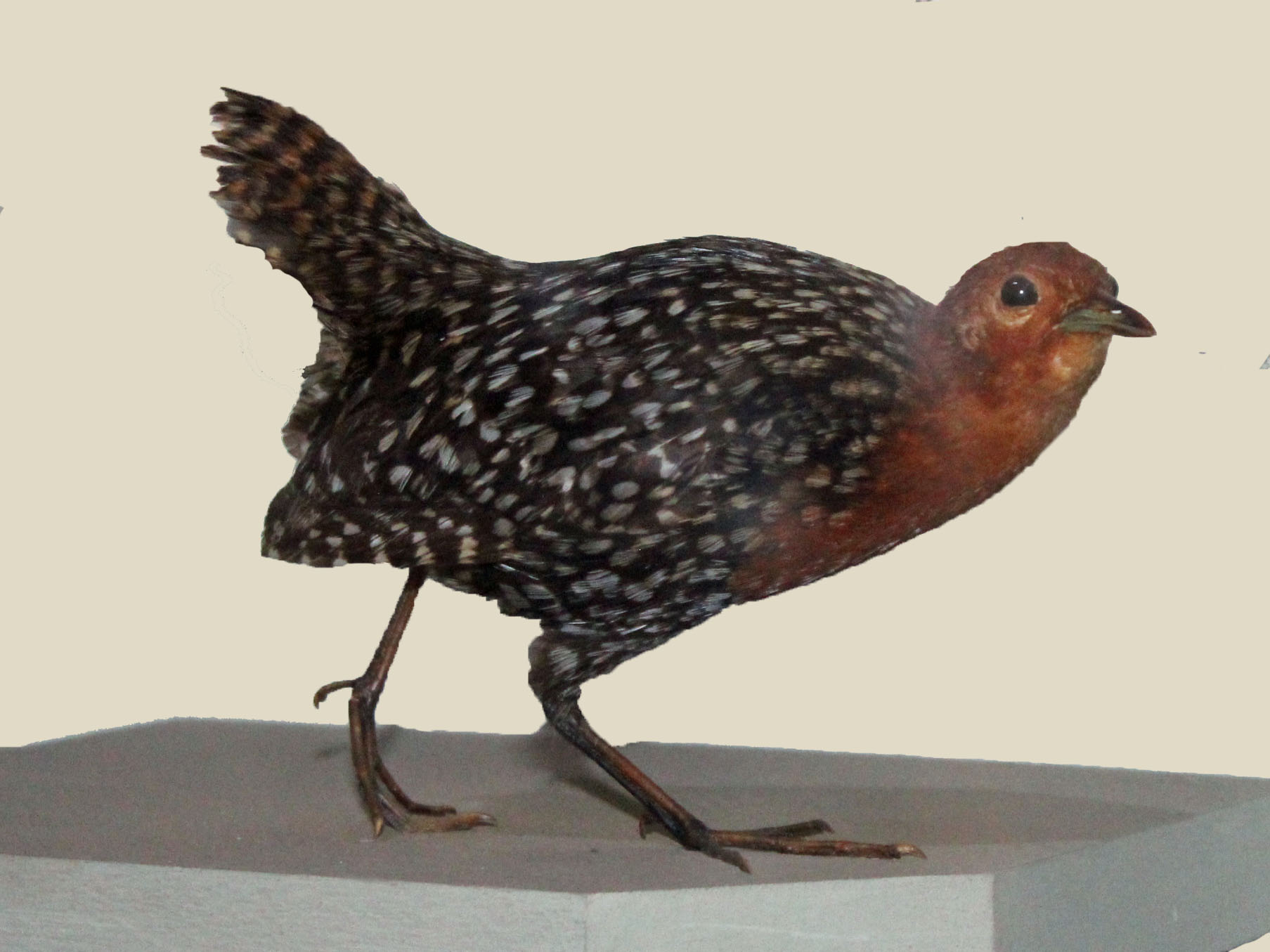 Buff-spotted Flufftail (Sarothrura elegans). Photograph of a specimen at Nairobi National Museum in Nairobi, Kenya.